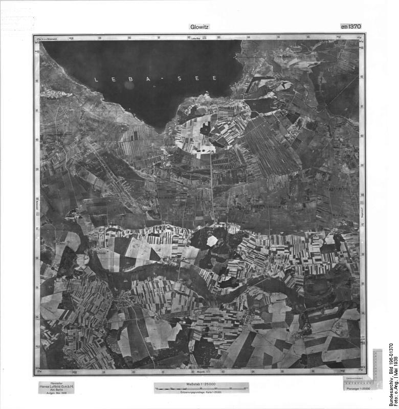 Główczyce - aerial view.